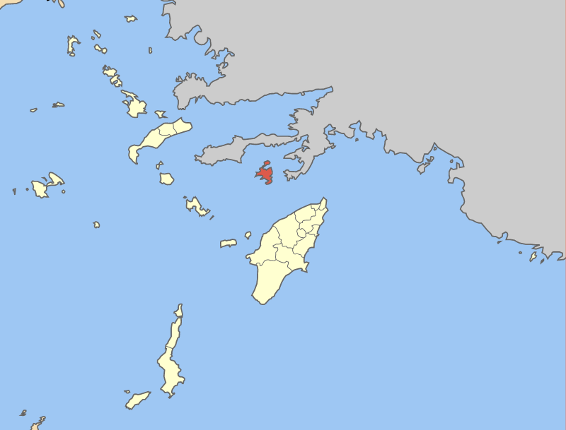 Locator map of Symi municipality (Δήμος Σύμης) in Dodecanese prefecture (Νομός Δωδεκανήσου) in Greece.